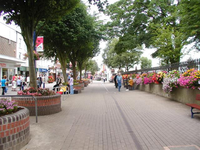 Pedestrian area at Coleraine. A very nice shopping area